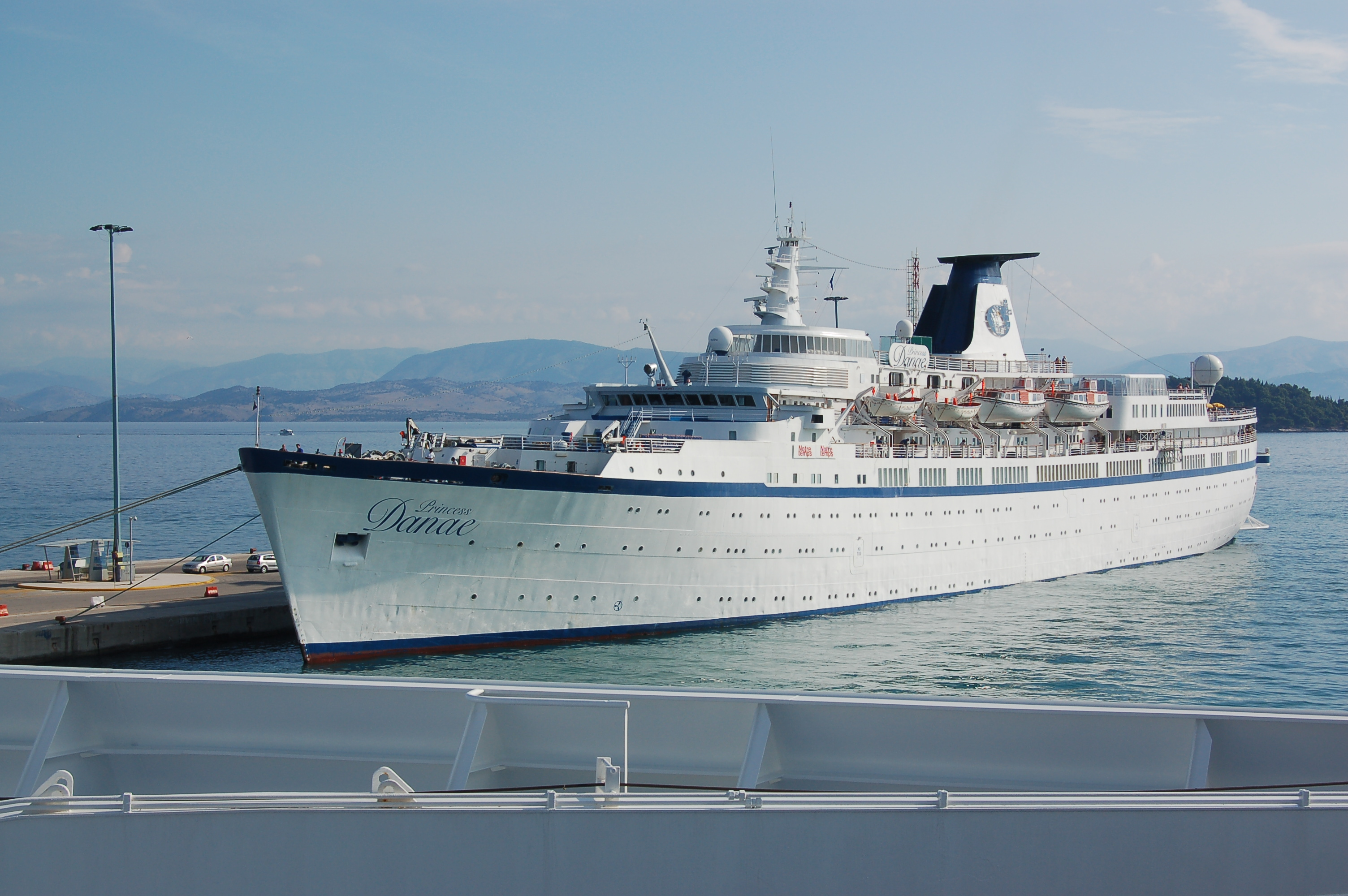 The MV Princess Danae, operated by Pullmantur Cruises, tied up at Corfu harbour, Greece. Photo taken from another cruise ship, the MS Insignia.